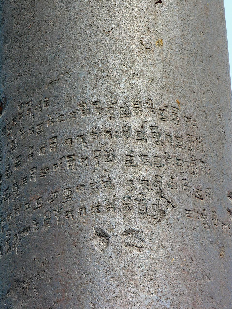 An inscription in sanskrit of six lines clearly indicates that it was initially erected outside a Vishnu temple and was raised in memory of the Gupta King Chandragupta Vikramaditya, who ruled from 375 to 413.